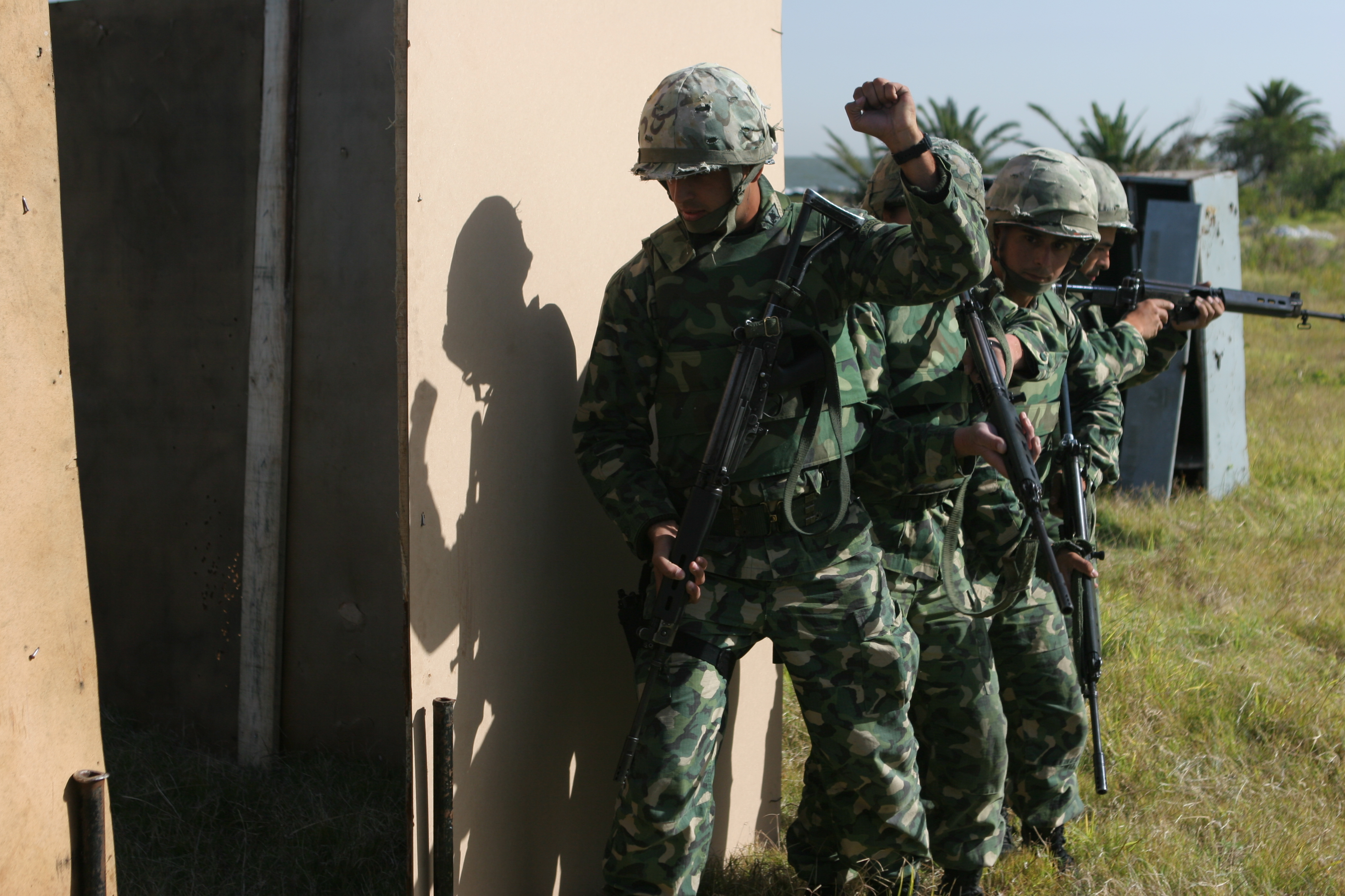 Uruguayan marines conduct close-quarters battle training as part of a subject matter expert exchange (SMEE) with U.S. Sailors and Marines, in Montevideo, Uruguay, May 8, 2008. The 2008 SMEE is in support of Partnership of the Americas 2008, a U.S. Southern Command sponsored operation designed to strengthen regional partnership and improve multinational interoperability, while enhancing the operational readiness of all assigned units.